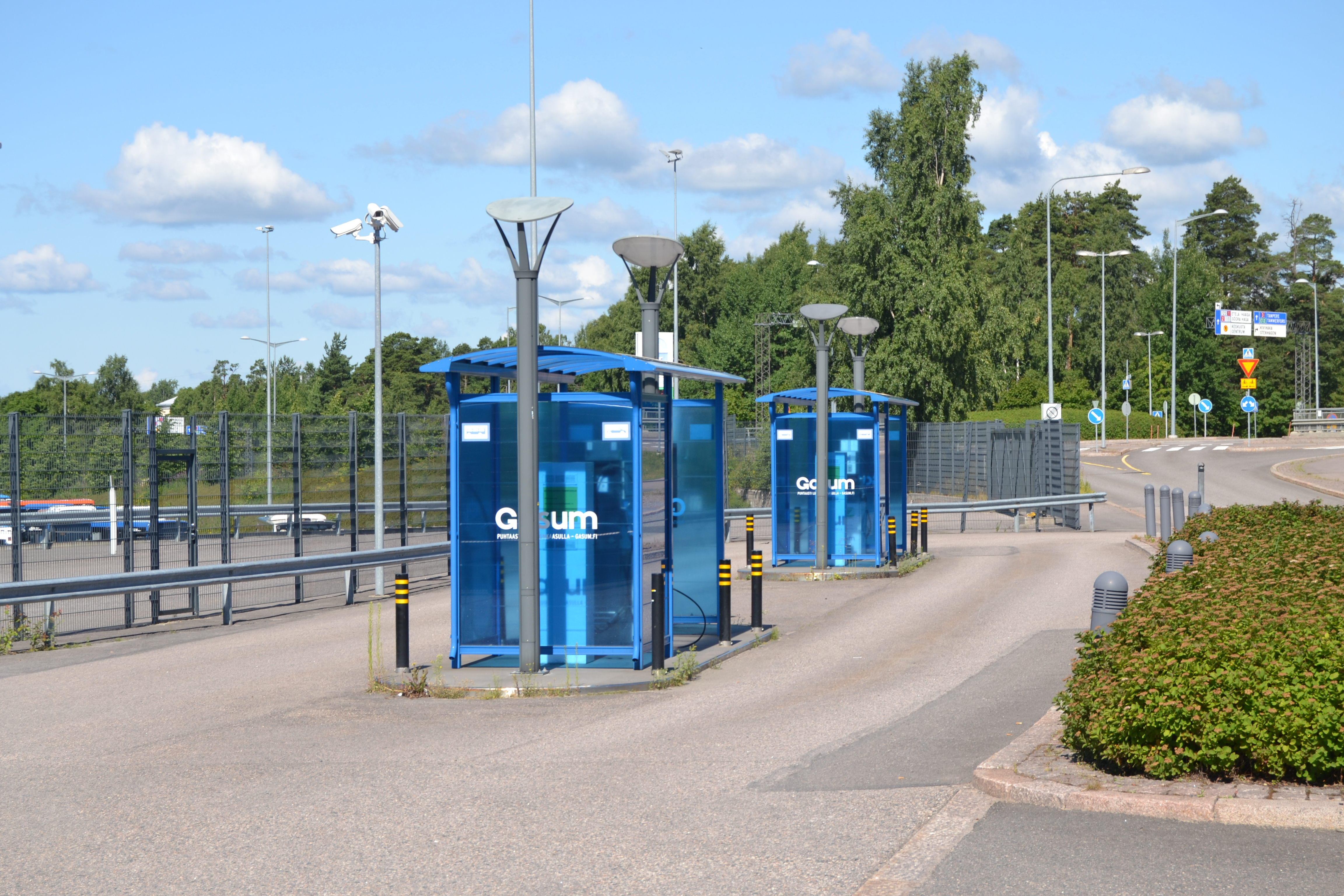 Gasum gas refueling station in Ruskeasuo, Helsinki